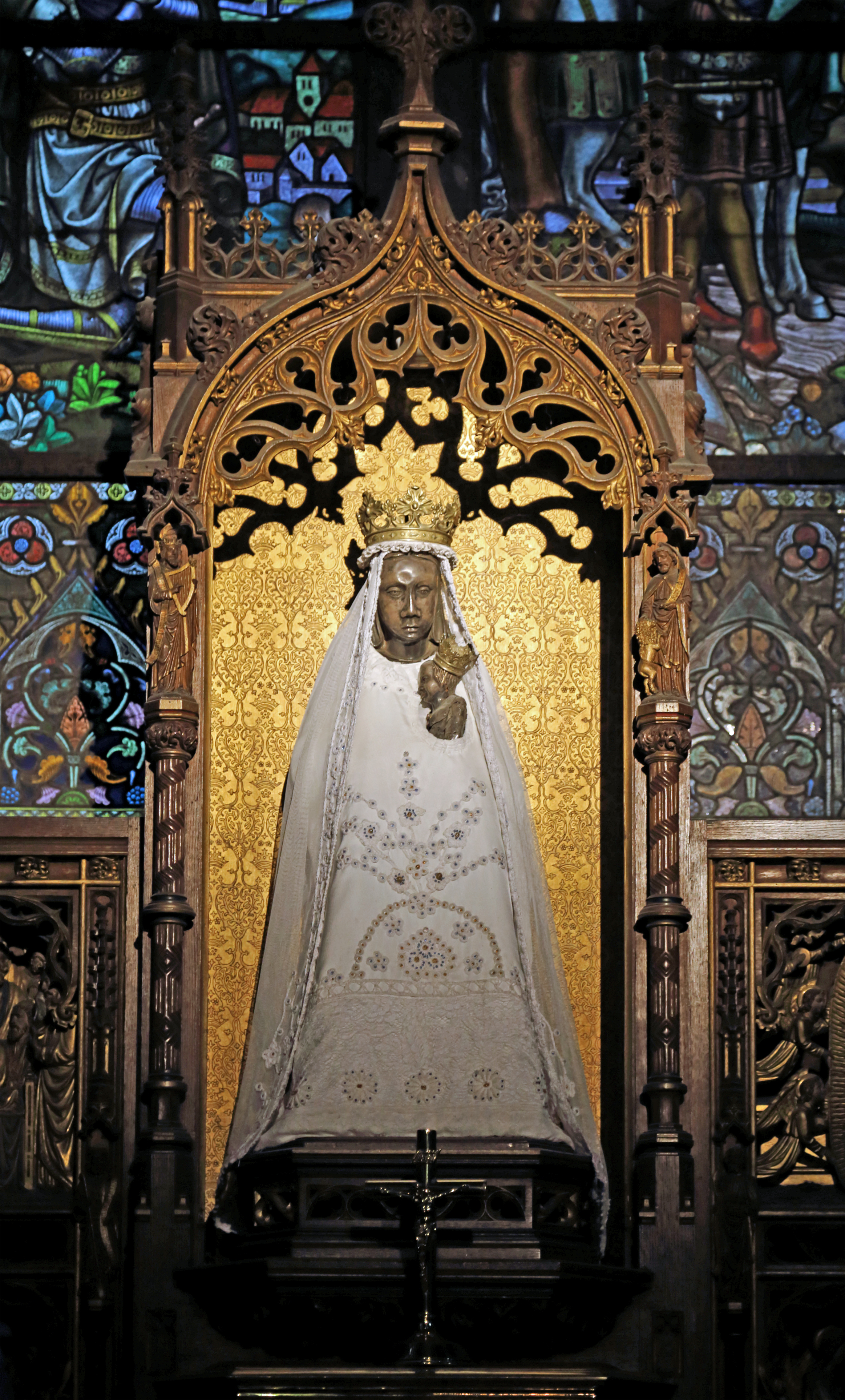 Walcourt (Belgium): the so-called miraculous statue of St Mary of Walcourt (10th C AD), in the St Materne church